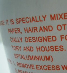 Warning sentences on an acidic drain opener. The acid reacts with aluminium oxide on the surface of some pipes.